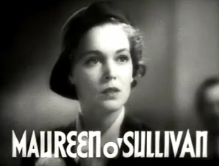 Cropped screenshot of Maureen O'Sullivan from the trailer for the film Woman Wanted